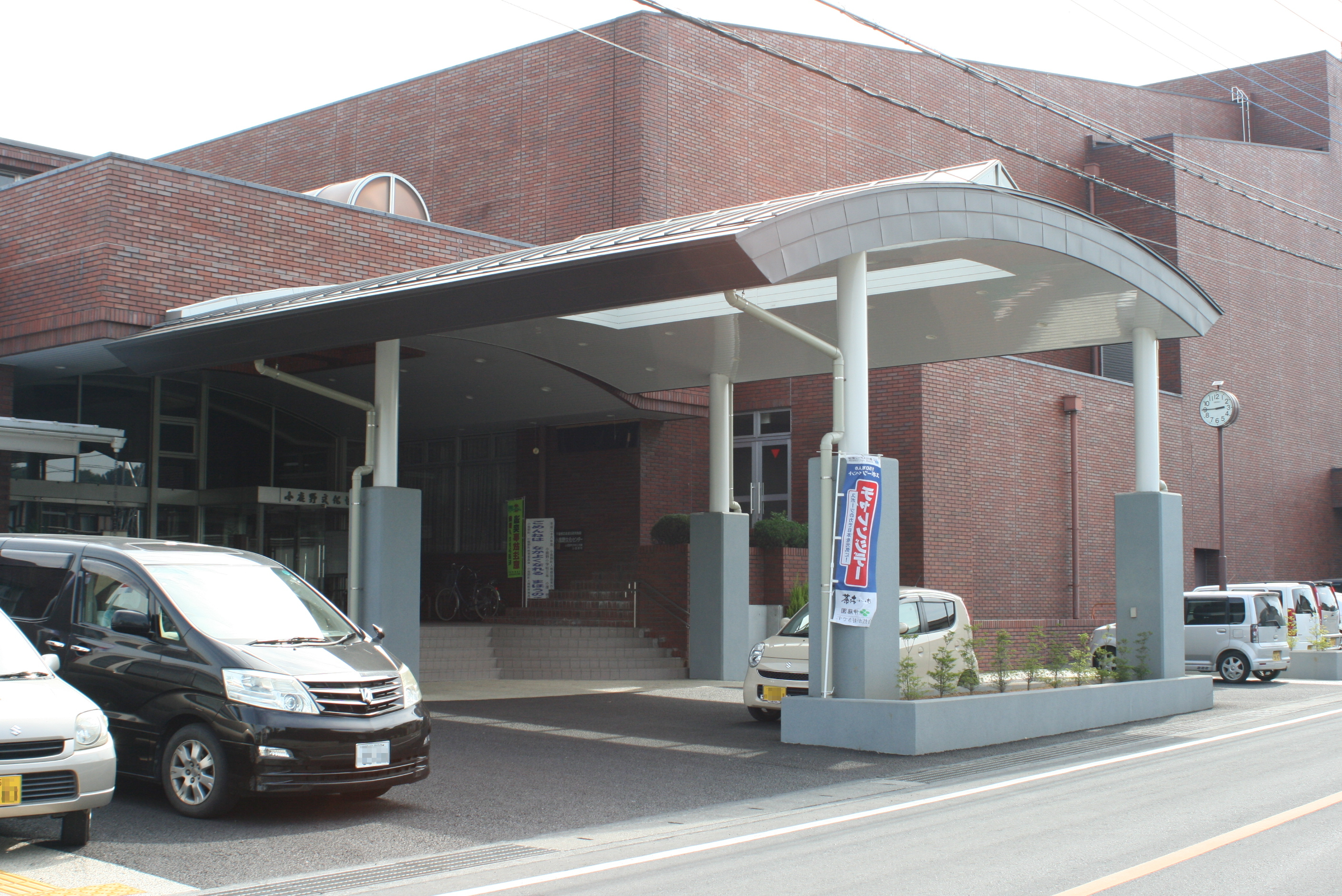 Substaion of Ogano Town Library. The substaion is located in Ogano Culture Center.